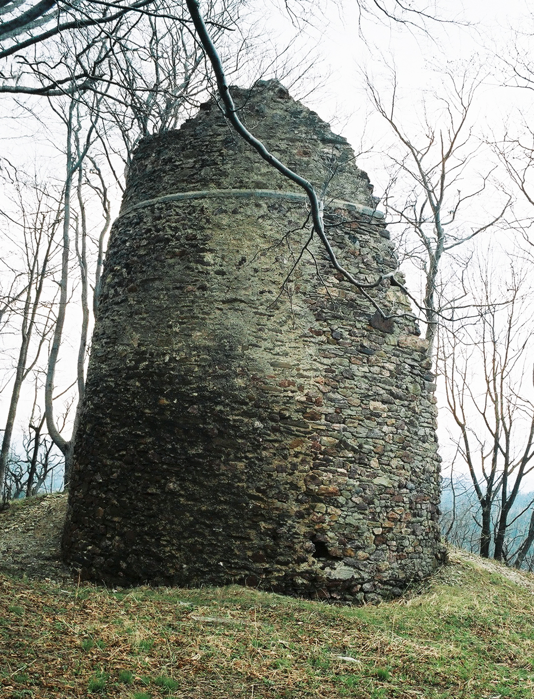 Ruins of the Castle Homole near Kłodzko, Poland. Remains of the main tower.